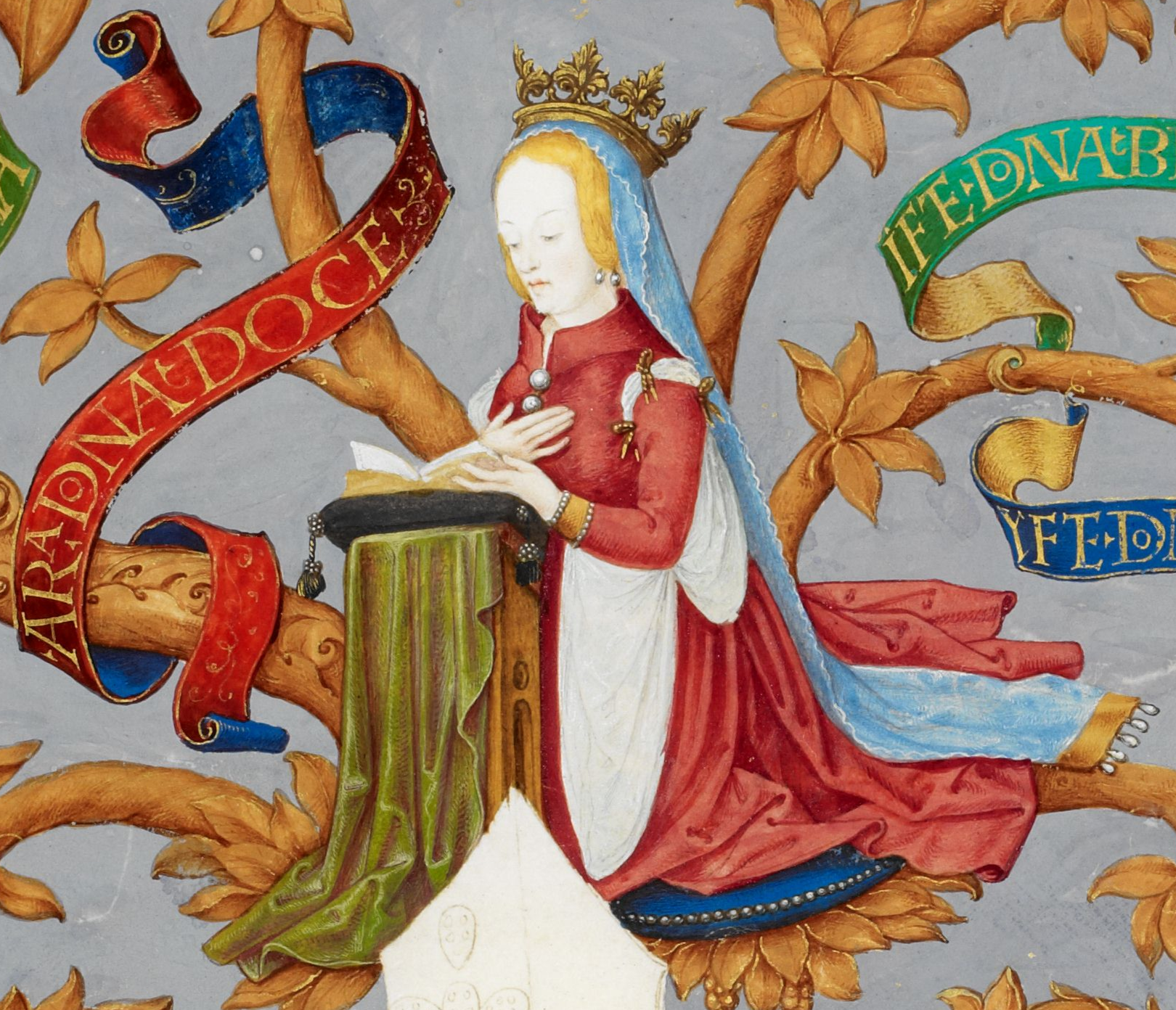 D. Dulce of Barcelona (1160-1198), Queen consort of Portugal through her marriage to King Sancho I.